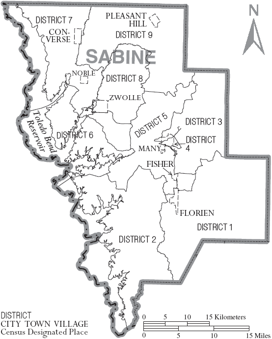 Map of Sabine Parish, Louisiana, United States with municipal and district boundaries